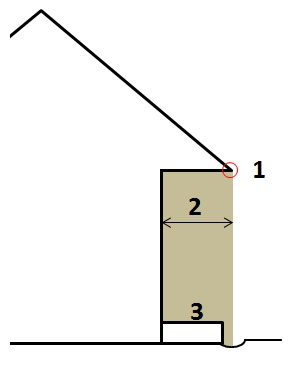 Eaves - schema